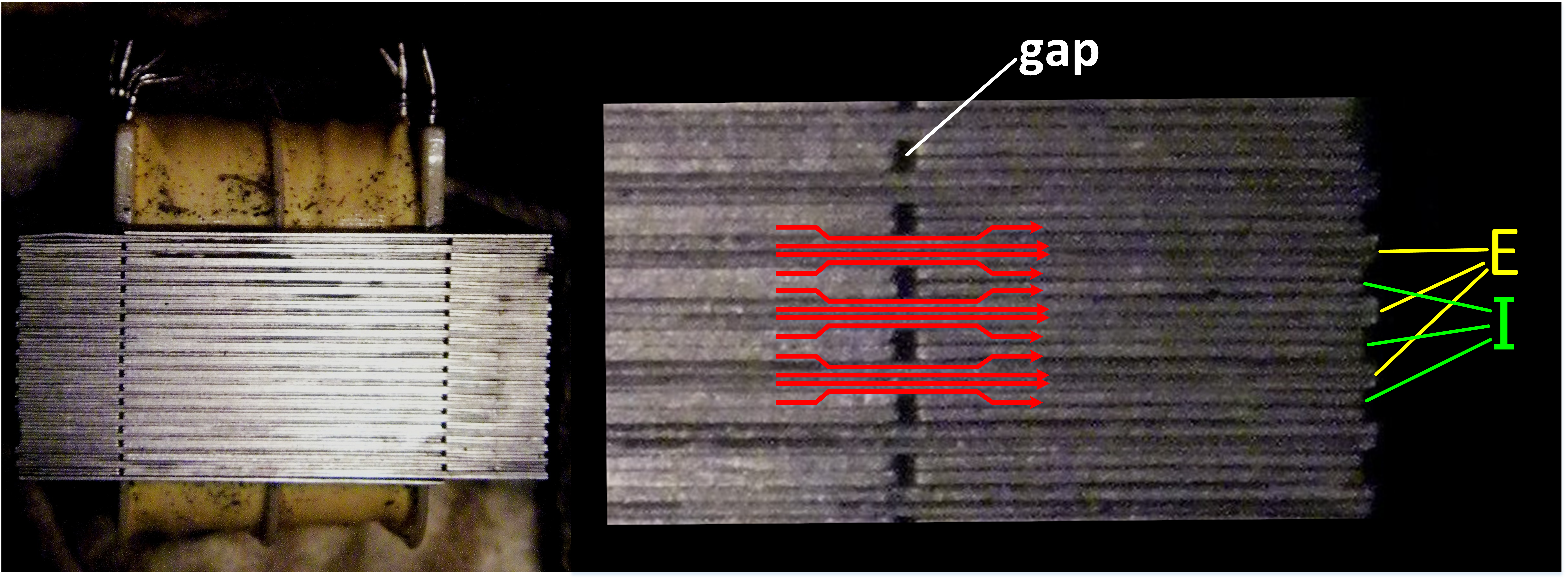 Interleaved E and I transformer laminations showing how the magnetic flux bypasses the inherent gap where the laminations are butted together.